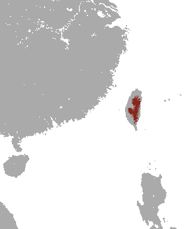 Taiwanese Brown-toothed Shrew (Episoriculus fumidus) range